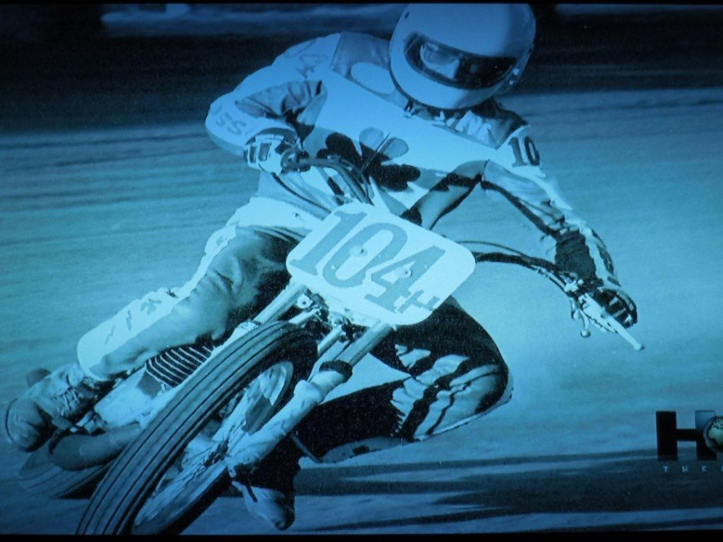 Steve Butler leading AMA race at Greenville, OH circa 1976